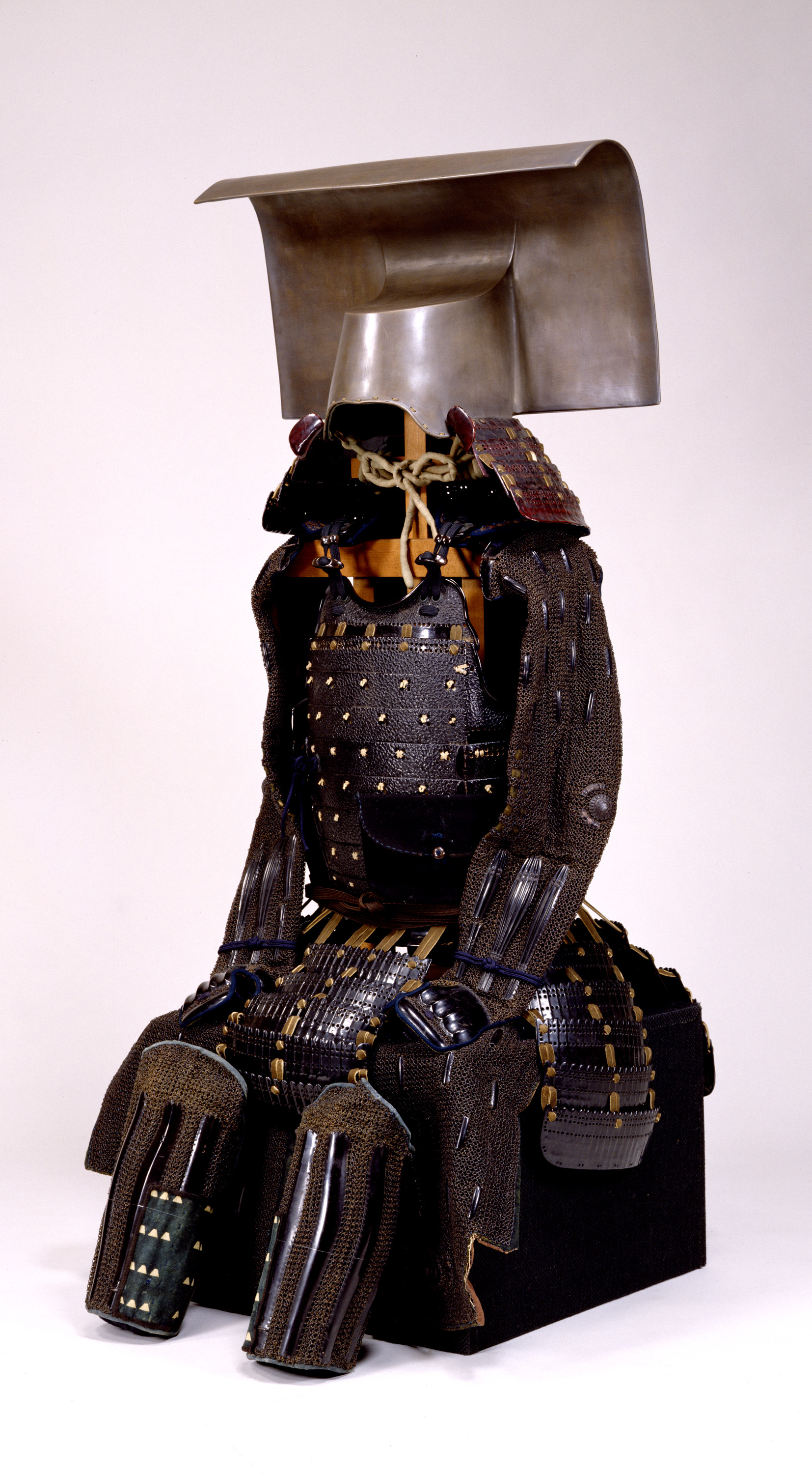 Gusoku with a Domaru Cuirass and Black Lacing, Edo period, 17th century, Tokyo National Museum